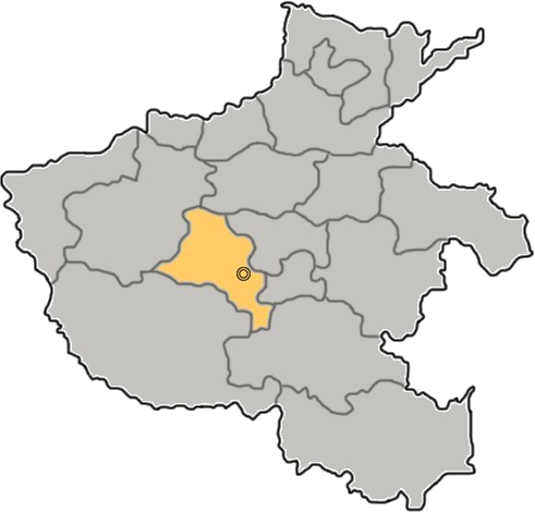 The prefecture-level city of Pingdingshan is highlighted on this map of Henan province, People's Republic of China.